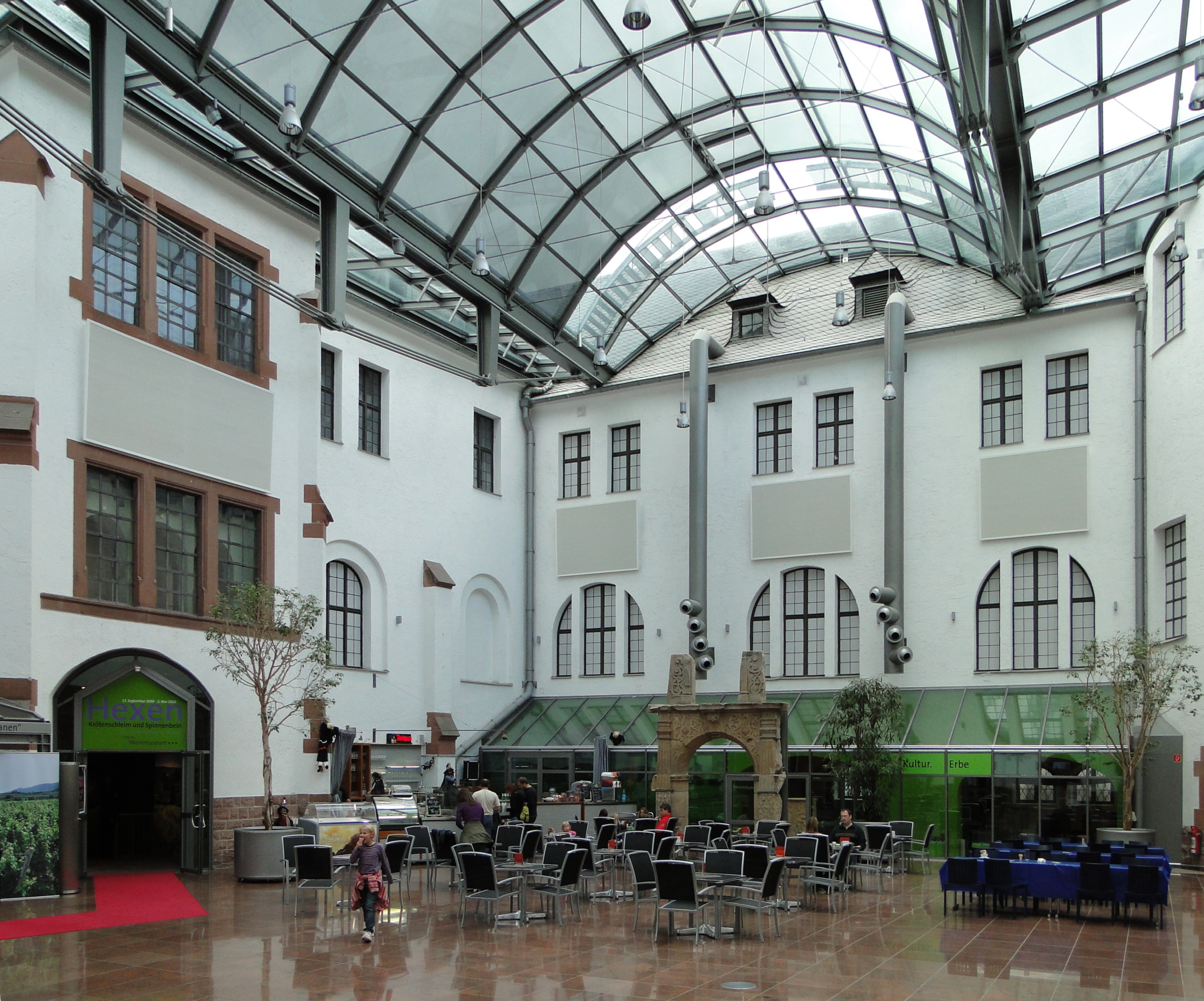 Historical Museum of the Palatinate ("Forum"), Speyer, Rhineland-Palatinate, Germany